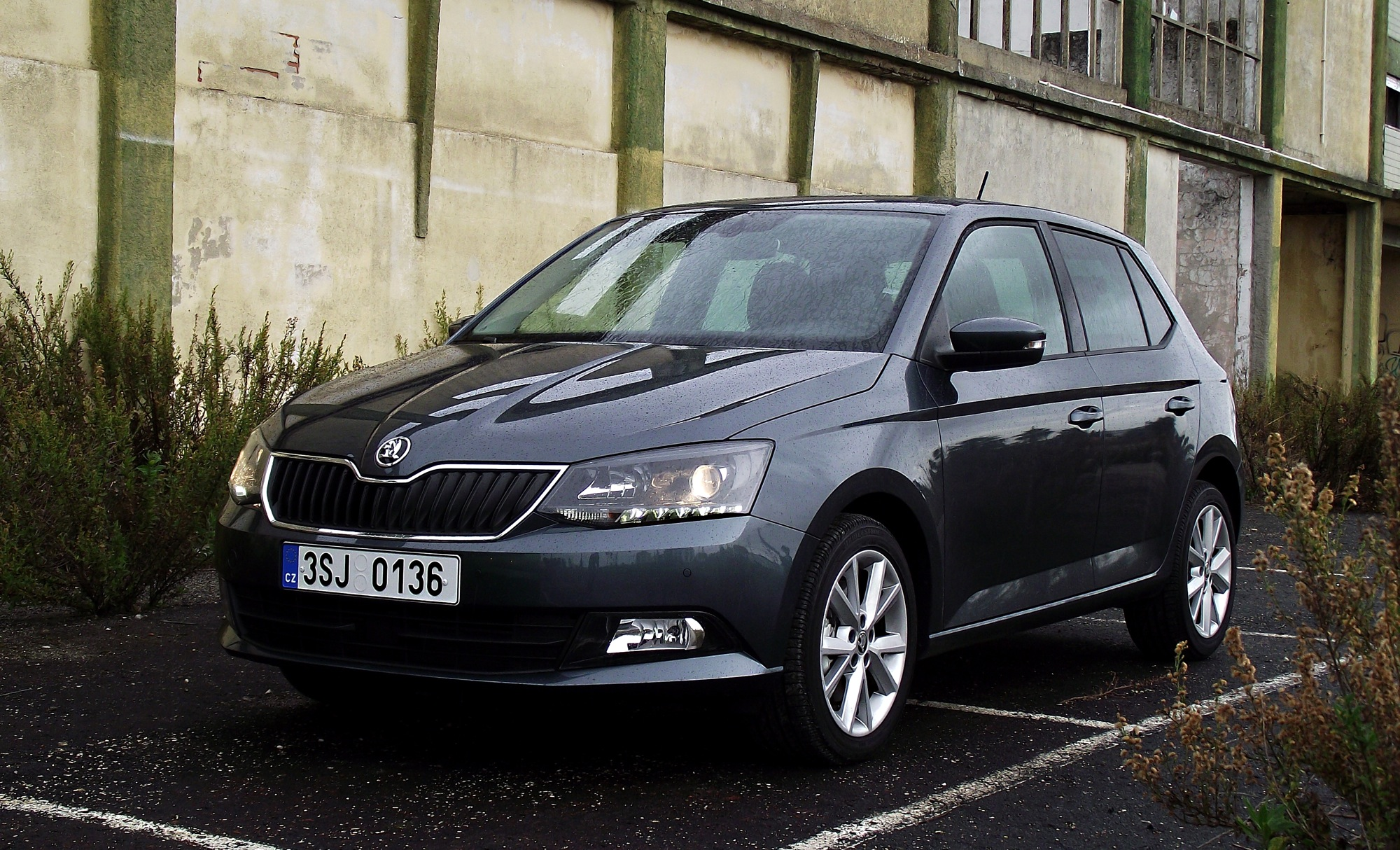 2014 Škoda Fabia III Typ NJ3 1.2 TSI Style Metall-Grau-Metallic Front View